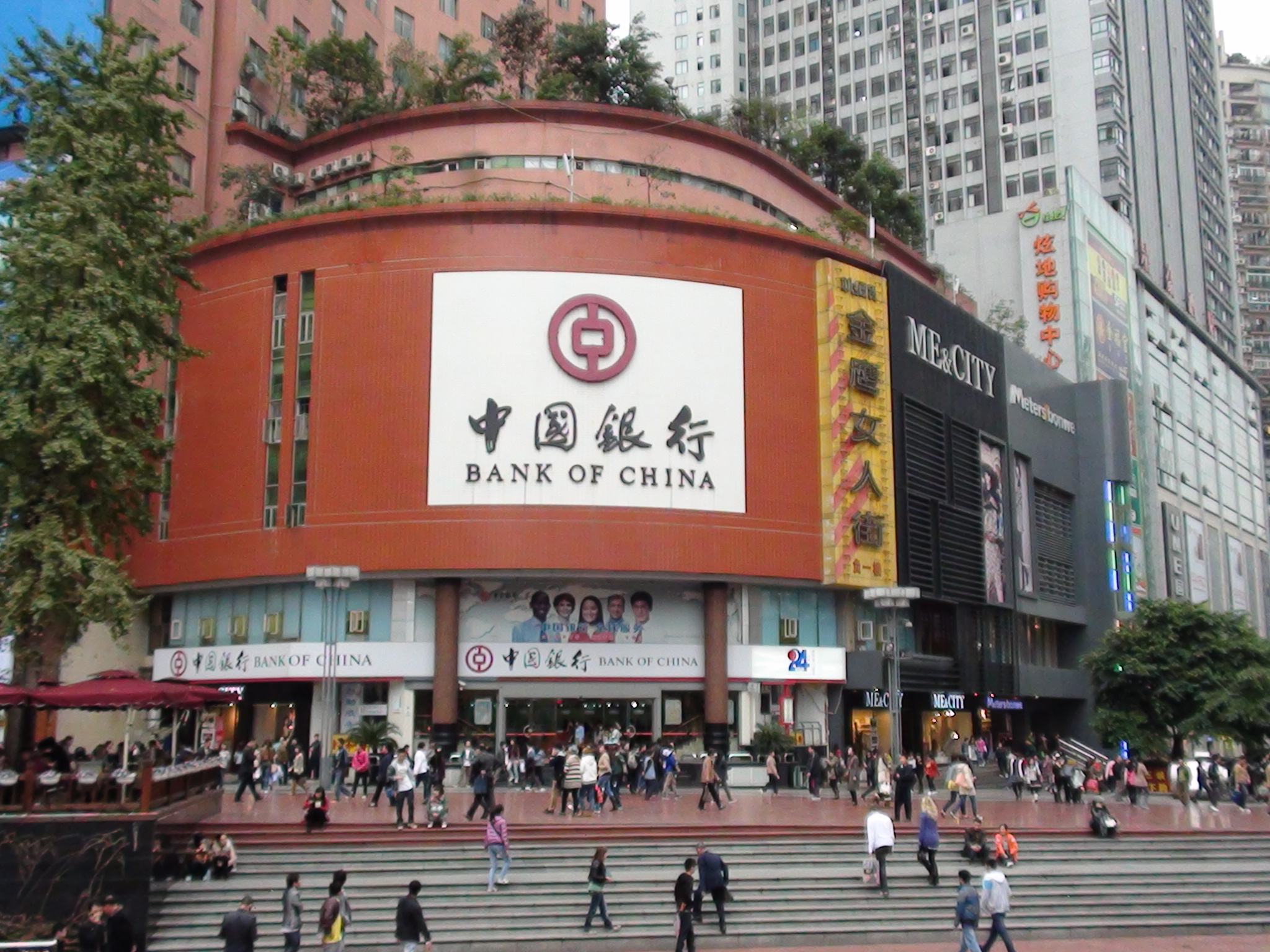 BANK OF CHINA SHAPINGBA BRANCH，CHONGQING